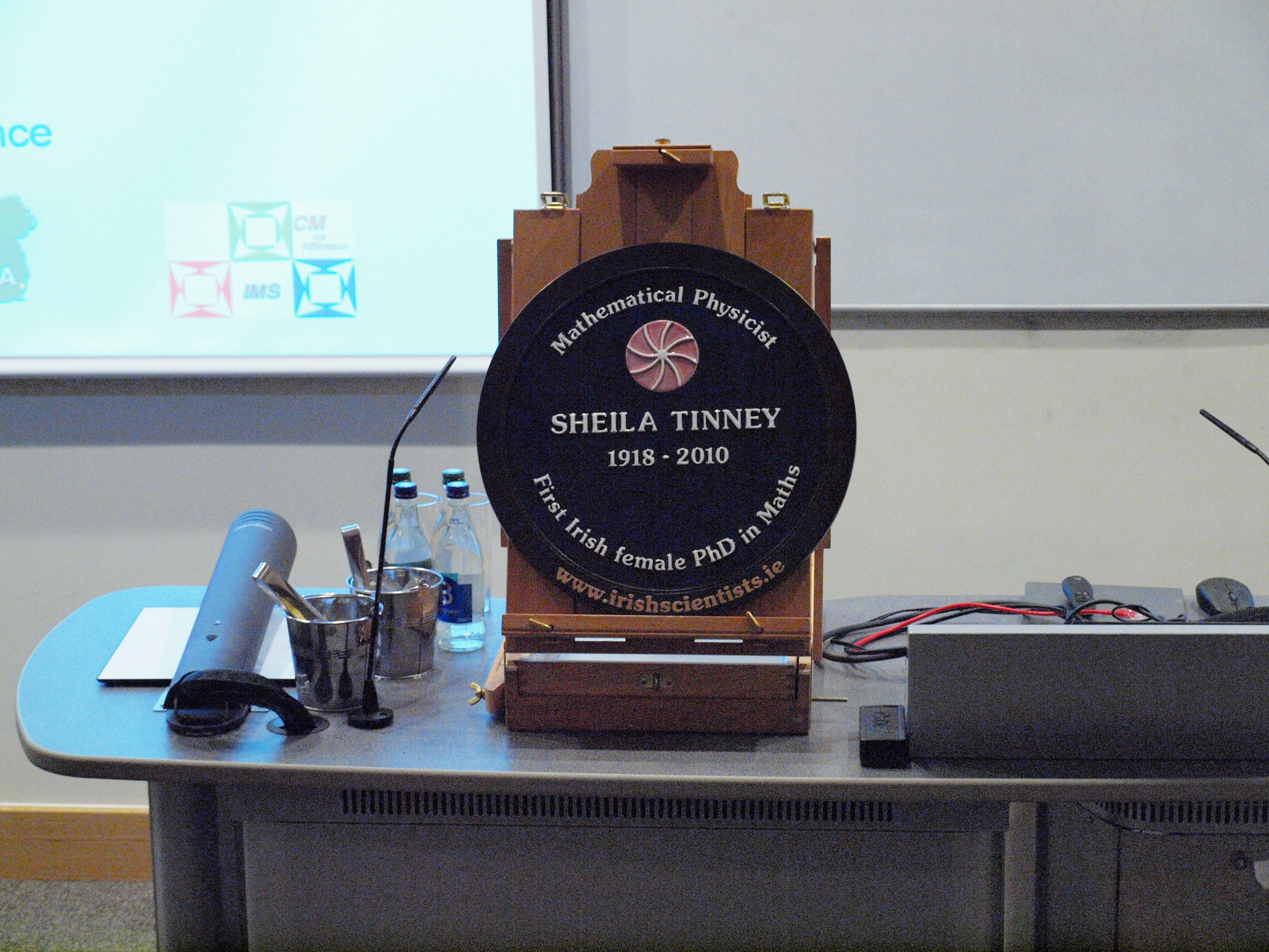 Women in Mathematics Day 2018 annual conference in University College Dublin on 29 August 2018. During this event, the centenary of the birth of Sheila Tinney was celebrated. Plaque created for Tinney by the National Committee for Commemorative Plaques for Science and Technology.